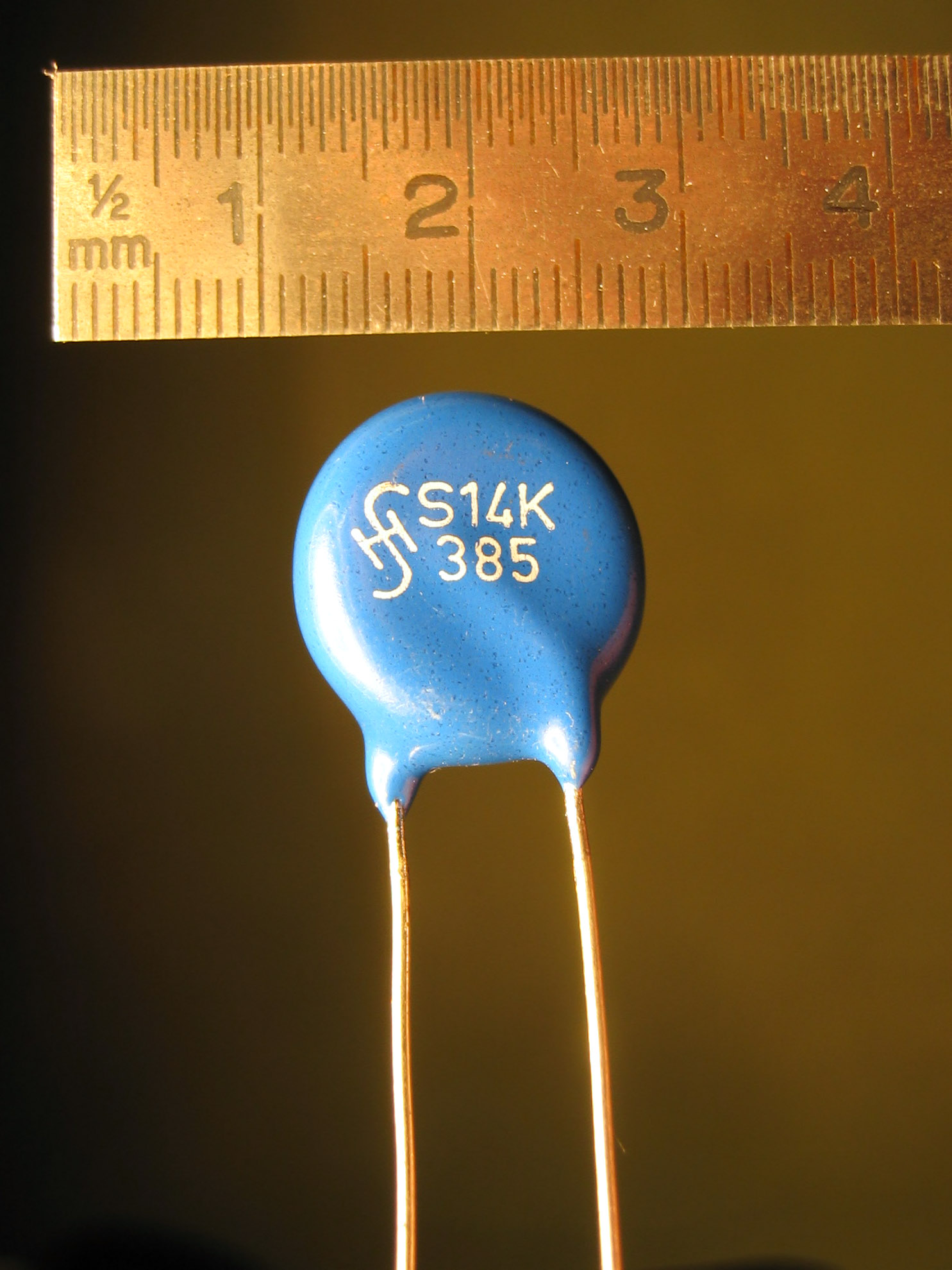 A small disc-type metal oxide varistor (MOV), i.e., voltage-dependent resistor, manufactured by Siemens/Epcos . It is rated for 385 volts. Data sheet